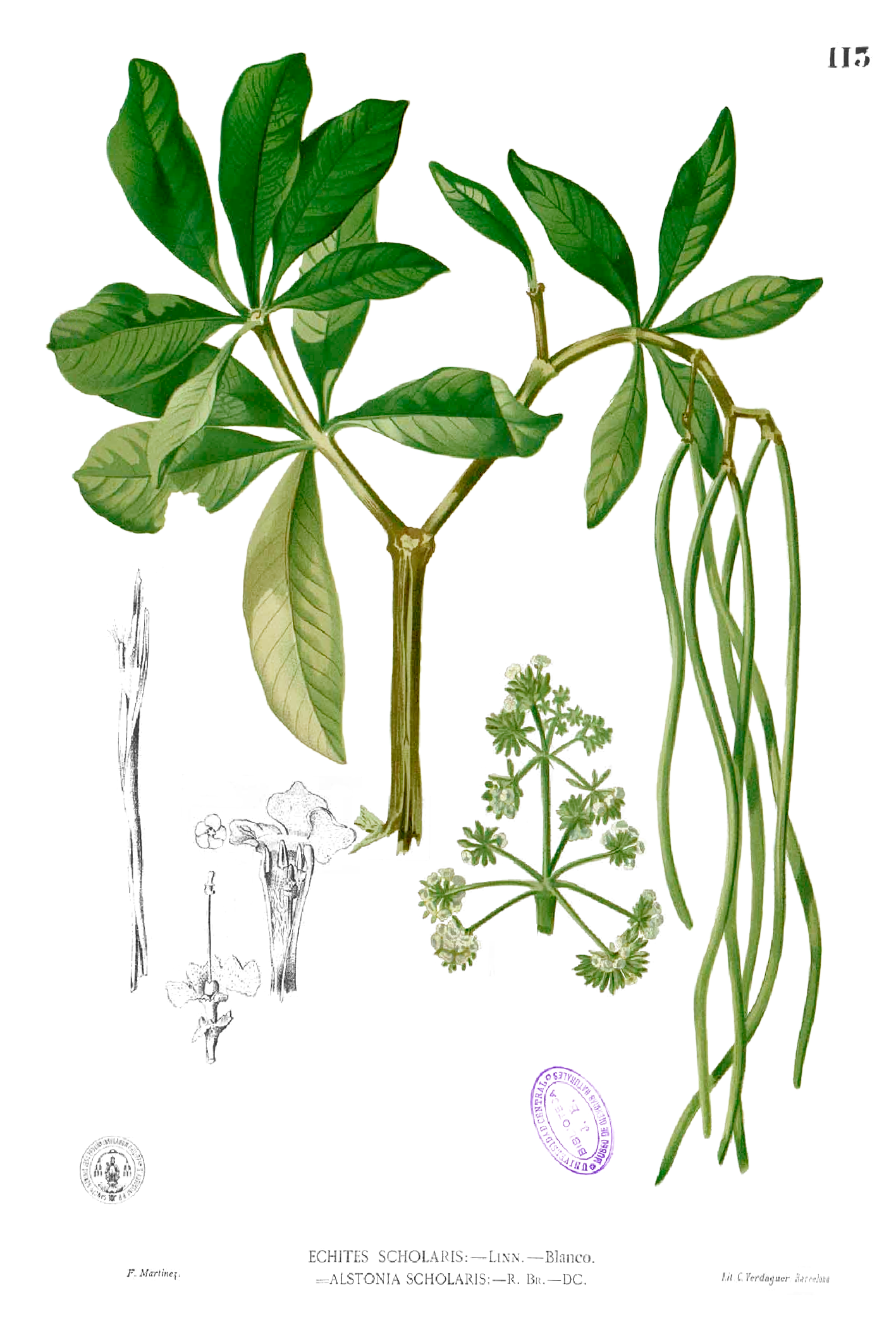 Alstonia scholaris Plate from book